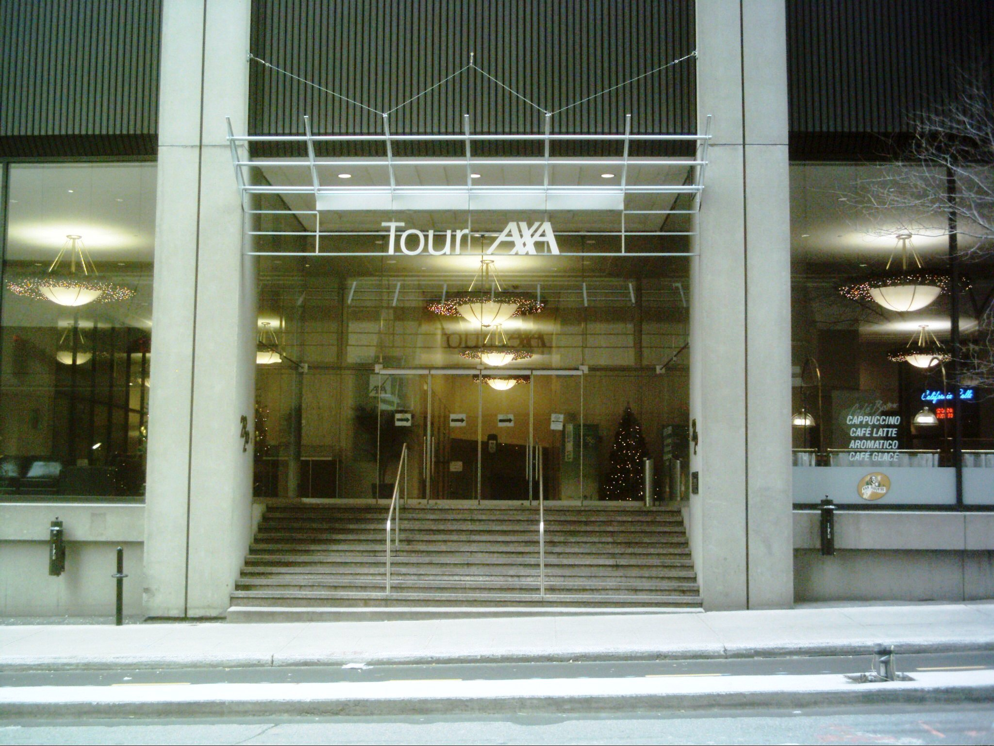 Axa Tower entrance, 2020 University, Montreal